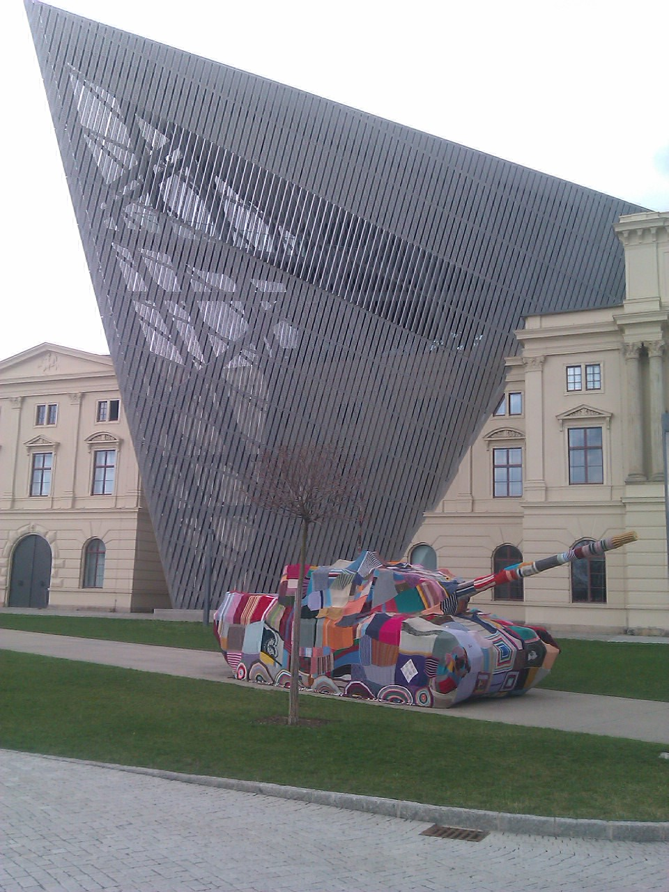 Knitted graffiti, project attack; Dresden/ Germany